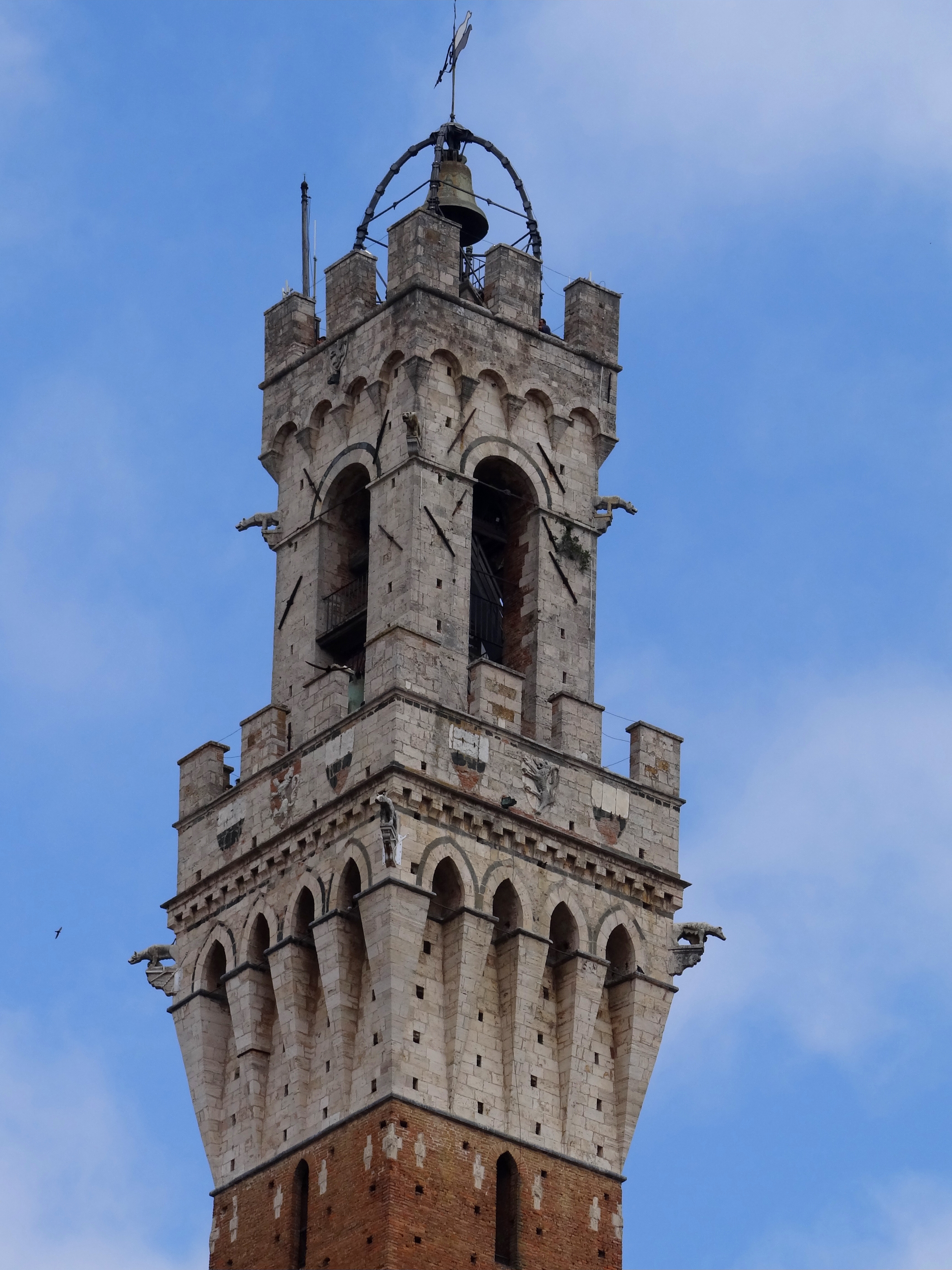 The crown of the Palazzo Pubblico in Siena, Italy.